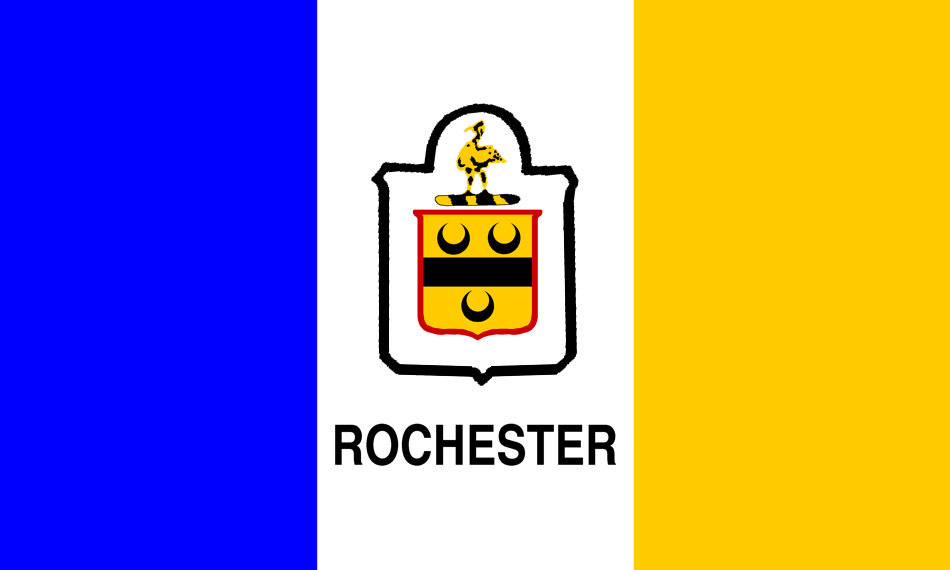 City flag, created in 1910 and adopted in 1934.